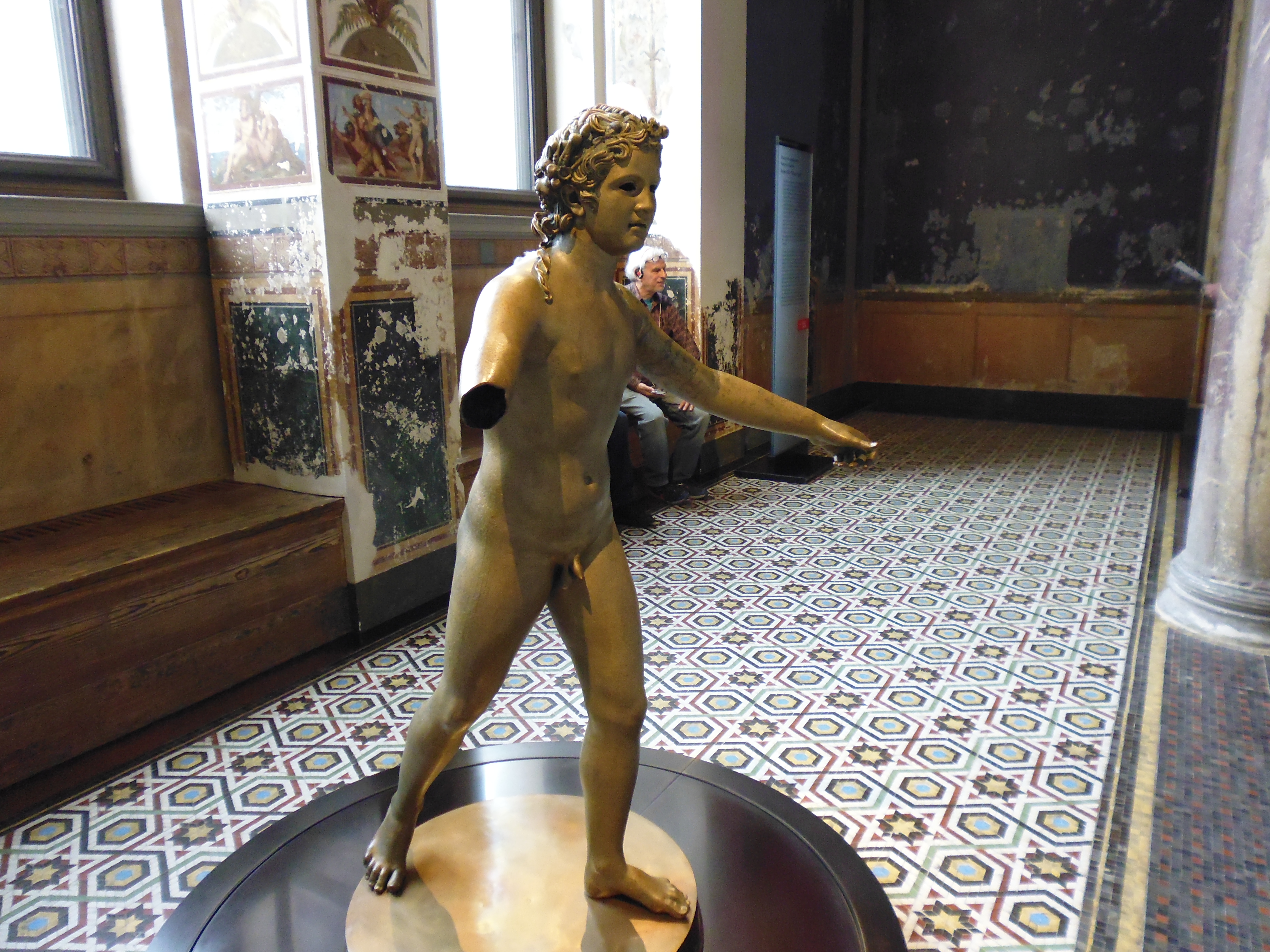 Young boy from Xanten